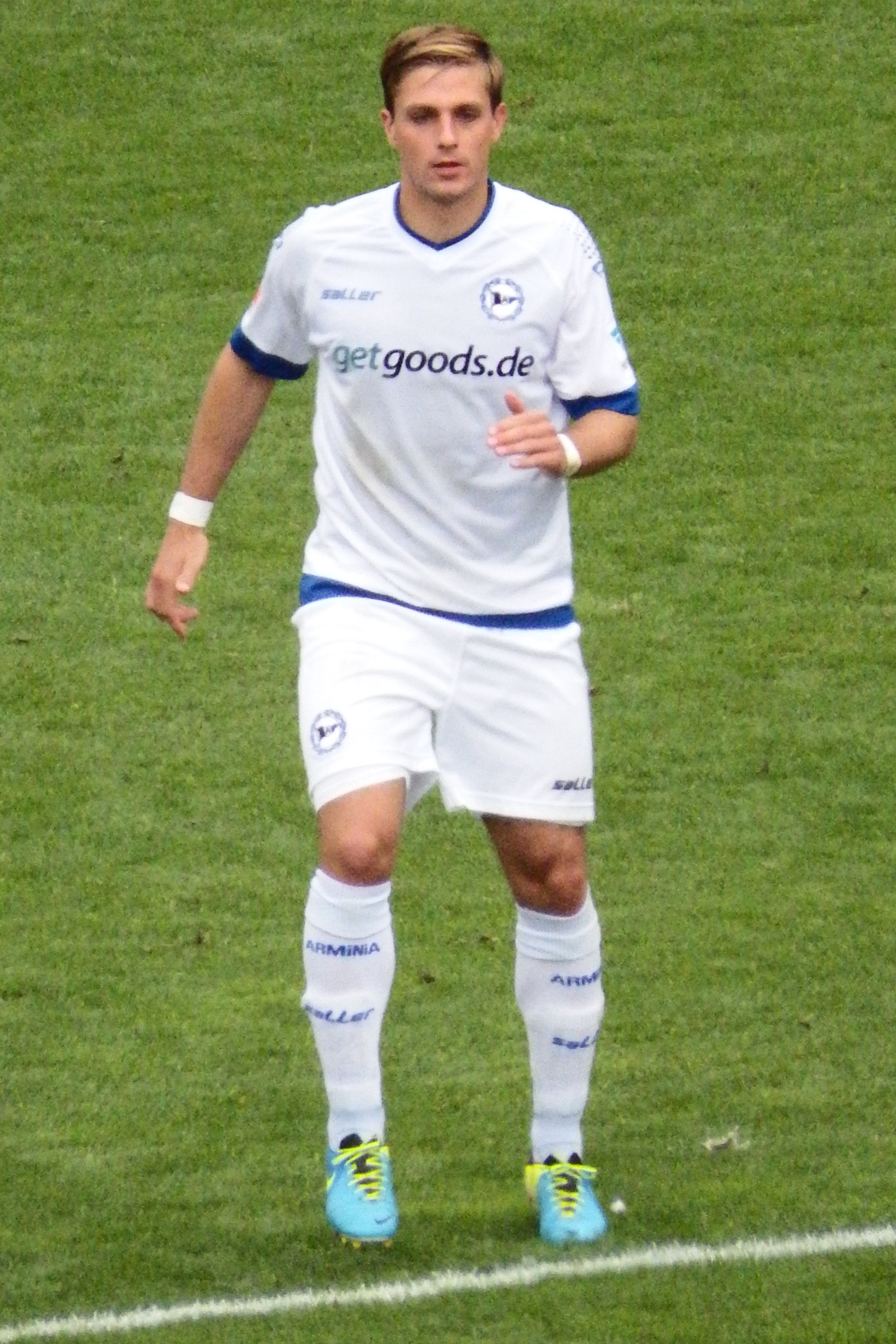 Tom Schütz as Player of Arminia Bielefeld